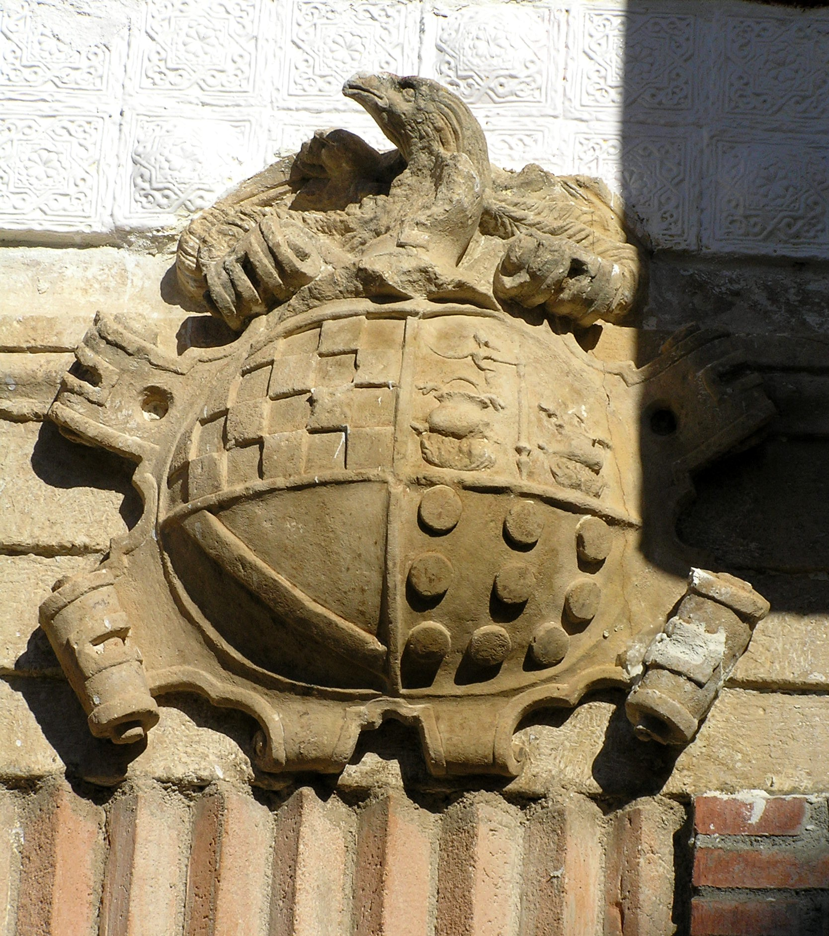 Escudo de la casa de los Sandovales